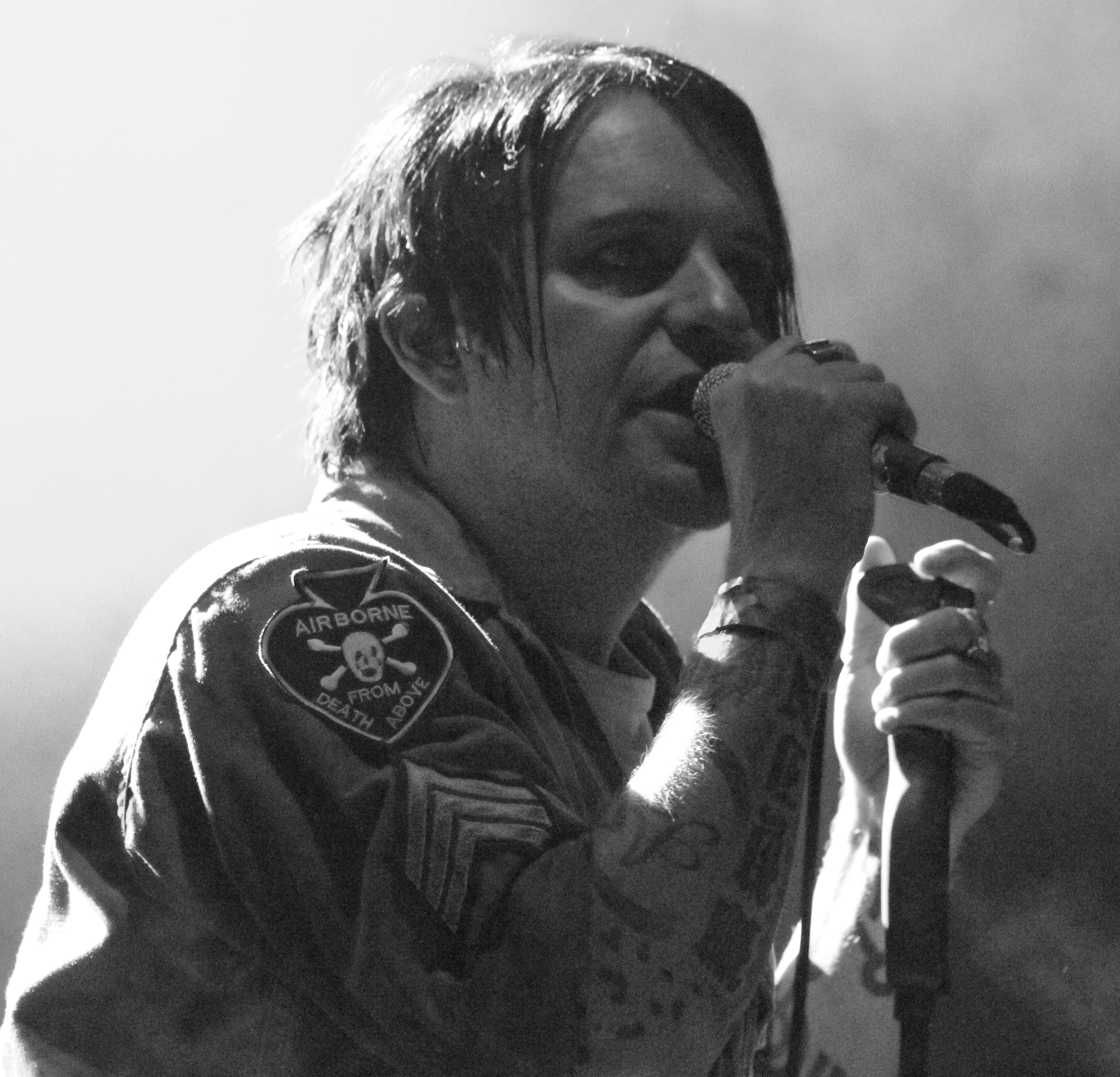 Apoptygma Berzerk at the Wave-Gotik-Treffen 2014. Apoptygma Berzerk in der Agra-Halle